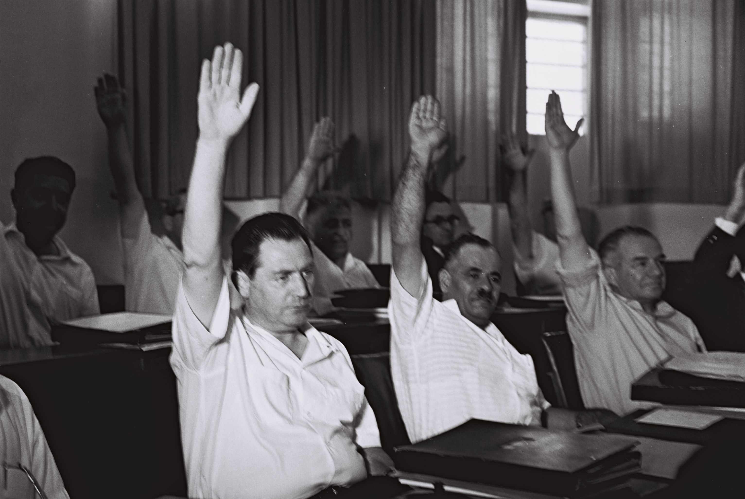 Members of the oposition in the Knesset voting against mr. Levy Eshkol's cabinet. fornt row R-L N. Nevin, mr. M. Cohen and mr. E. Shostak ( all Herut party).